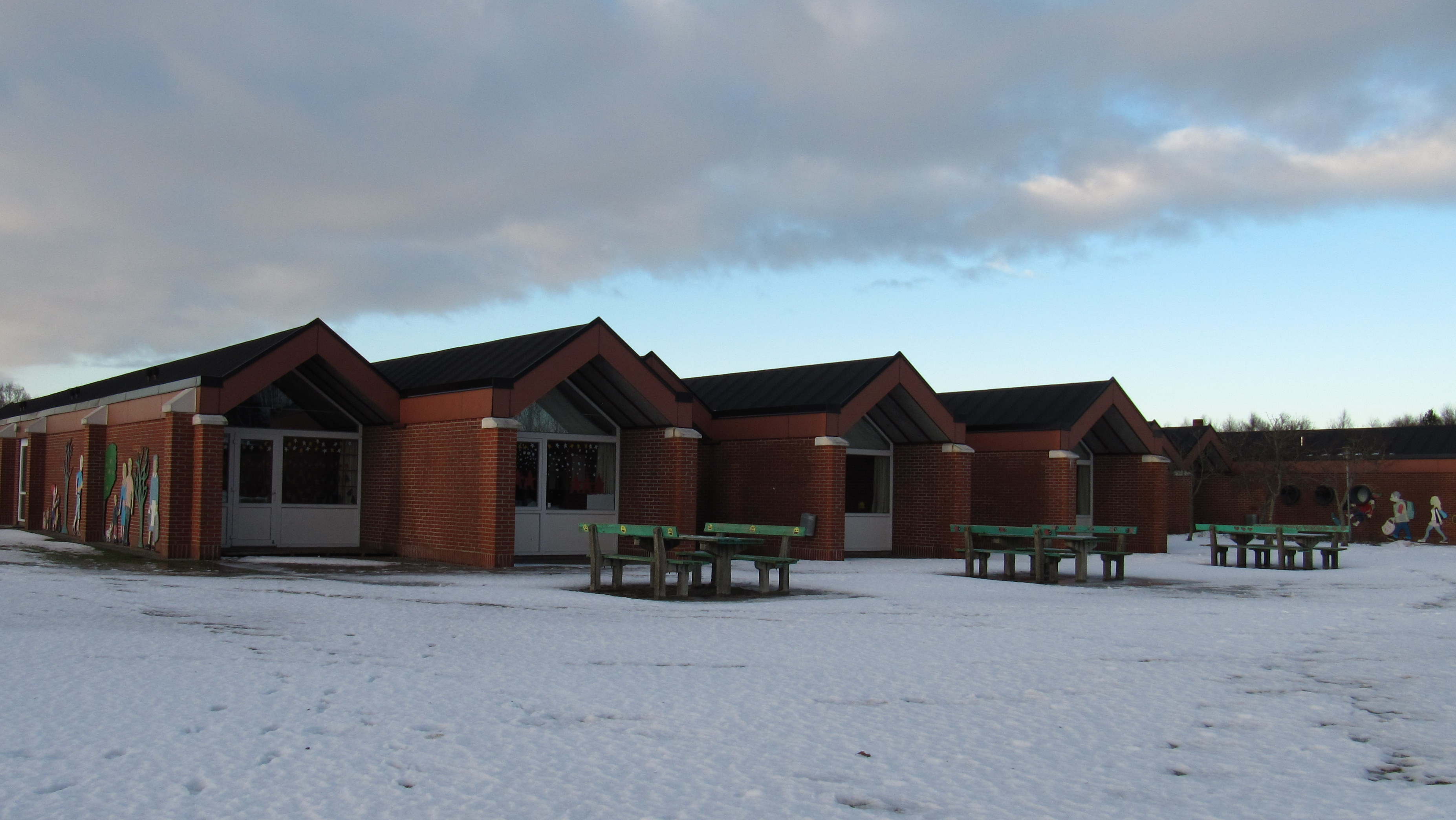 Vester Hassing Elementary School